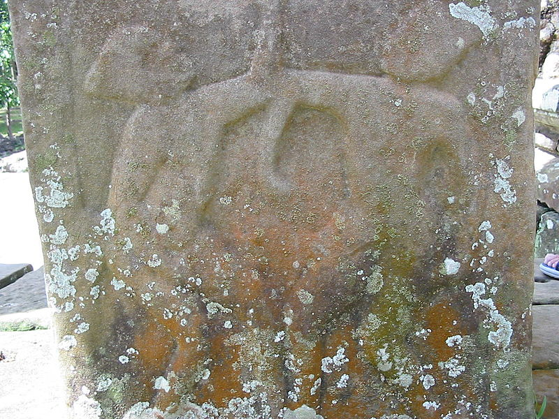 Bayon Temple entrance column bas-relief showing two fighters using their elbows to strike.